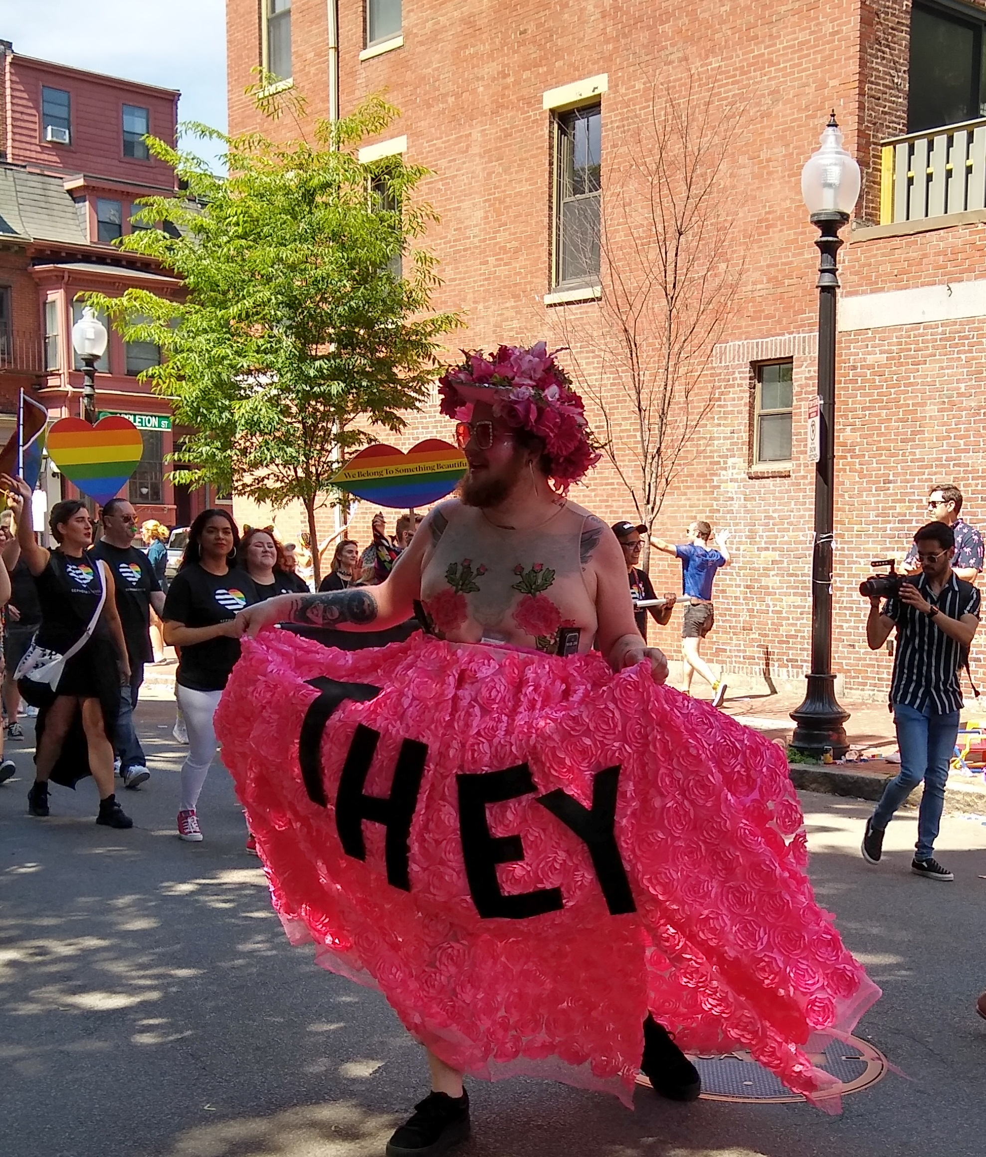 Proponent of pronoun "they" representing someone who doesn’t identify with either gender at the Boston Pride parade.